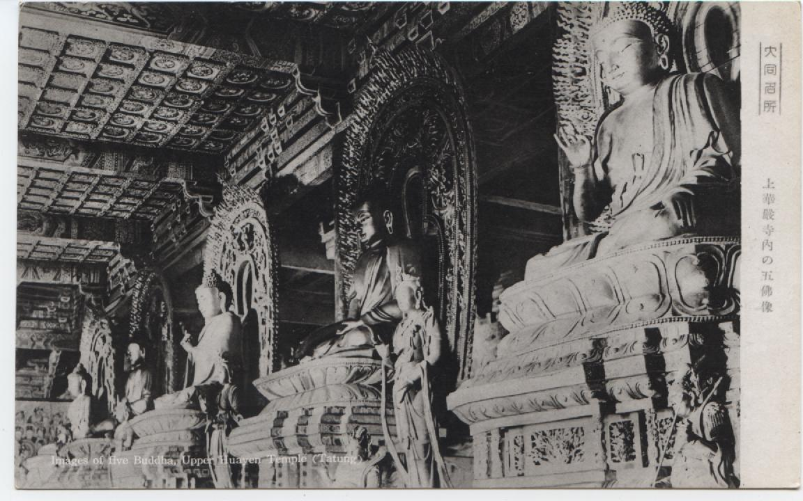 Upper Huayan Temple, Datong, Shanxi, China. See title. 140 × 90mm